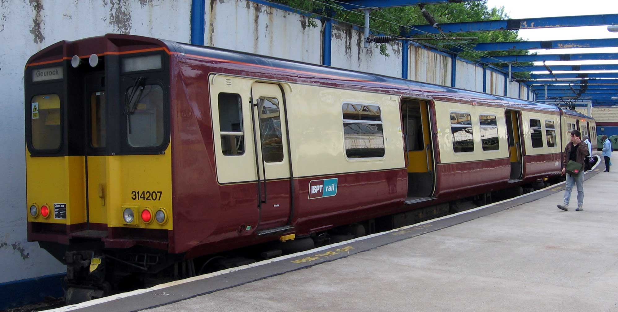 Strathclyde Partnership for Transport British Rail Class 314 train at Gourock railway station